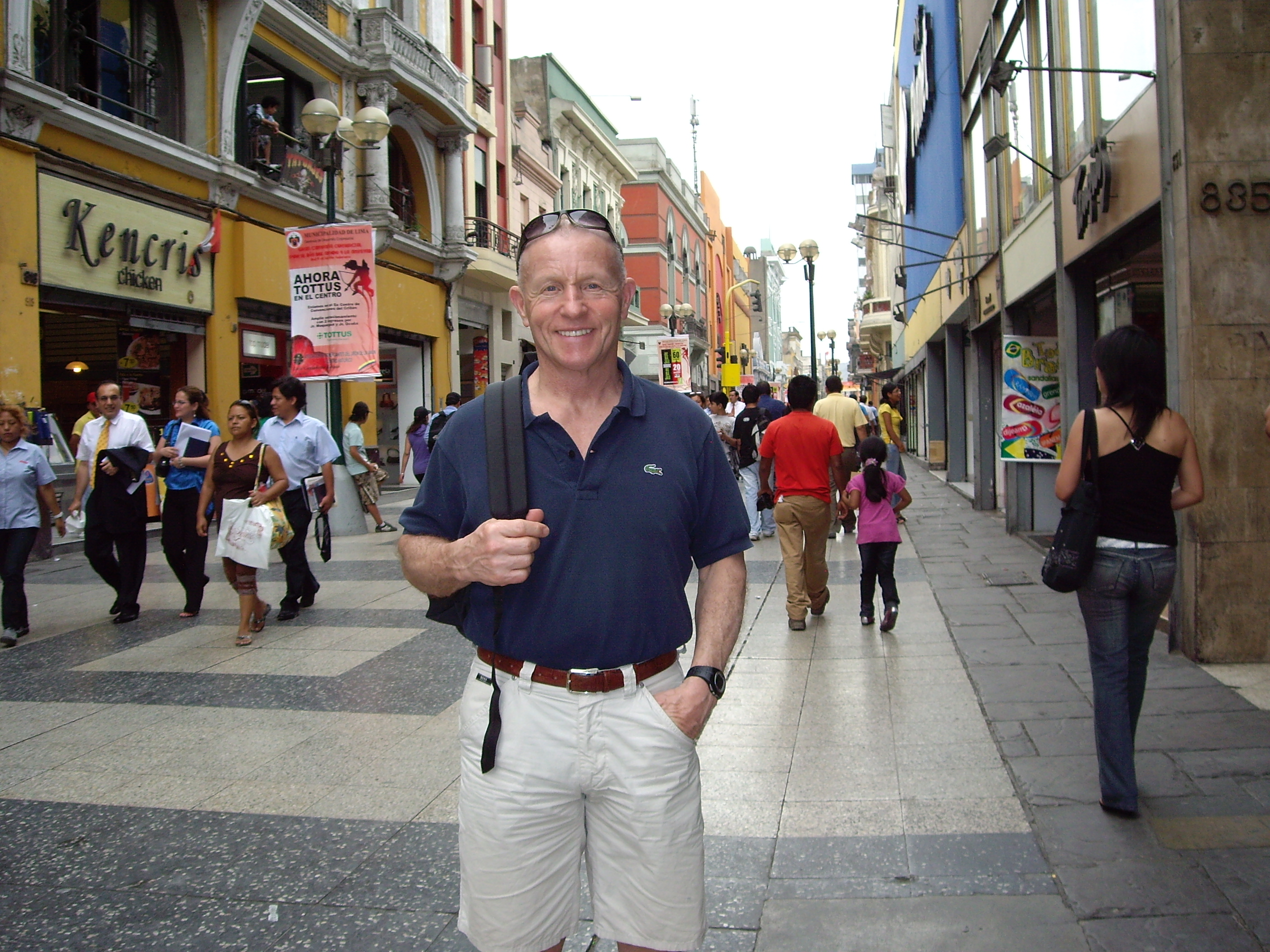 Professor Matthias Schirn